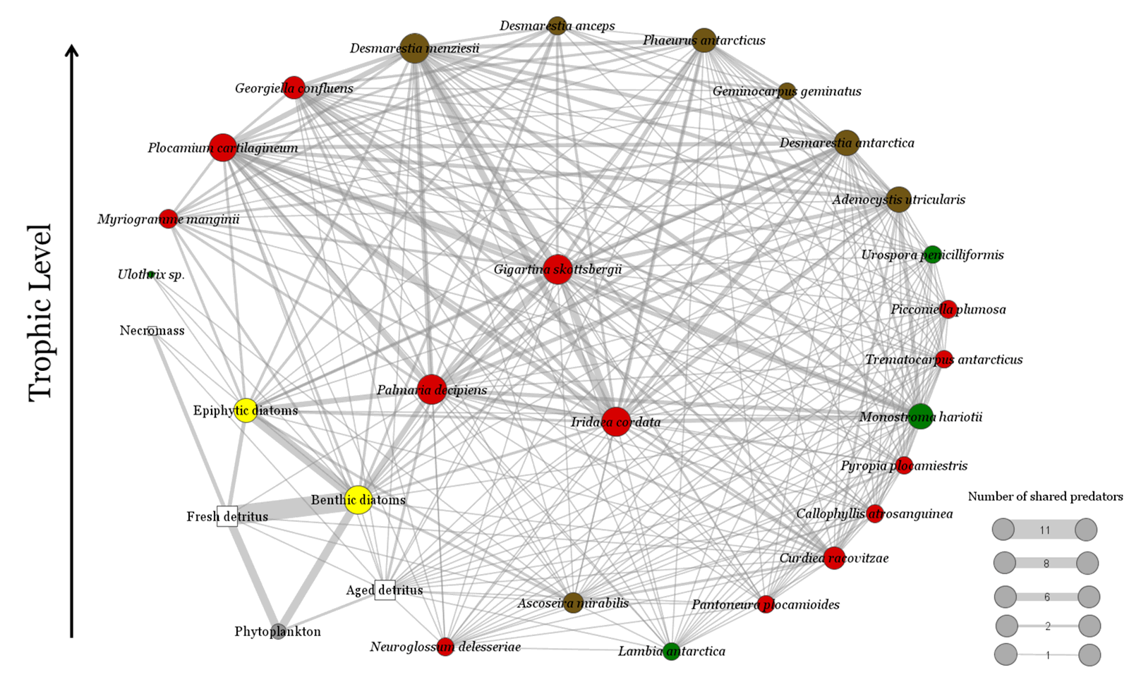 Common-enemy graph of Potter Cove food web, nodes represent basal species and links indirect interactions (shared predators). Node and link widths are proportional to number of shared predators. Node colors represent functional groups.